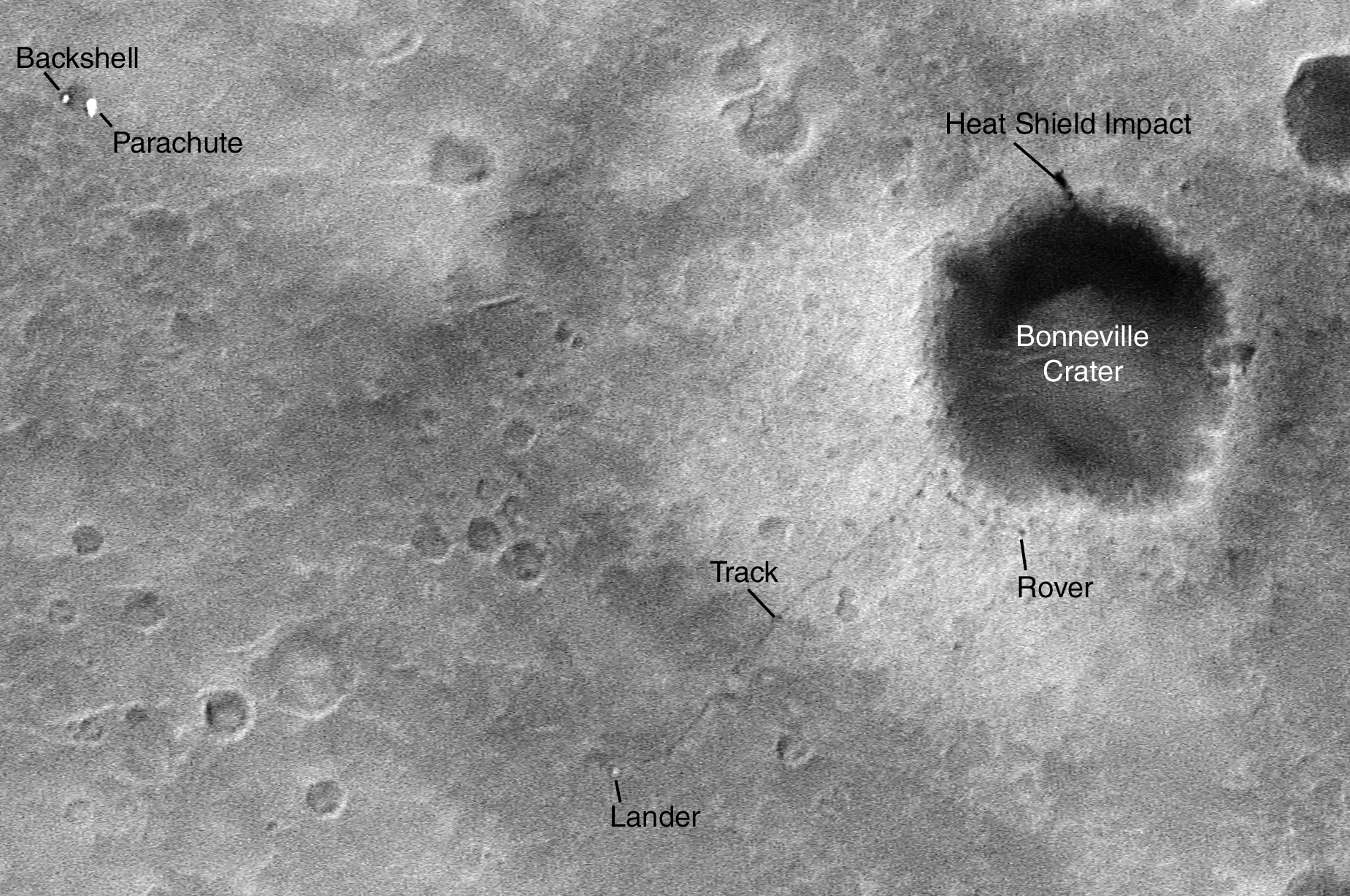 MGS photo of spirit landing site showing tracks and rover